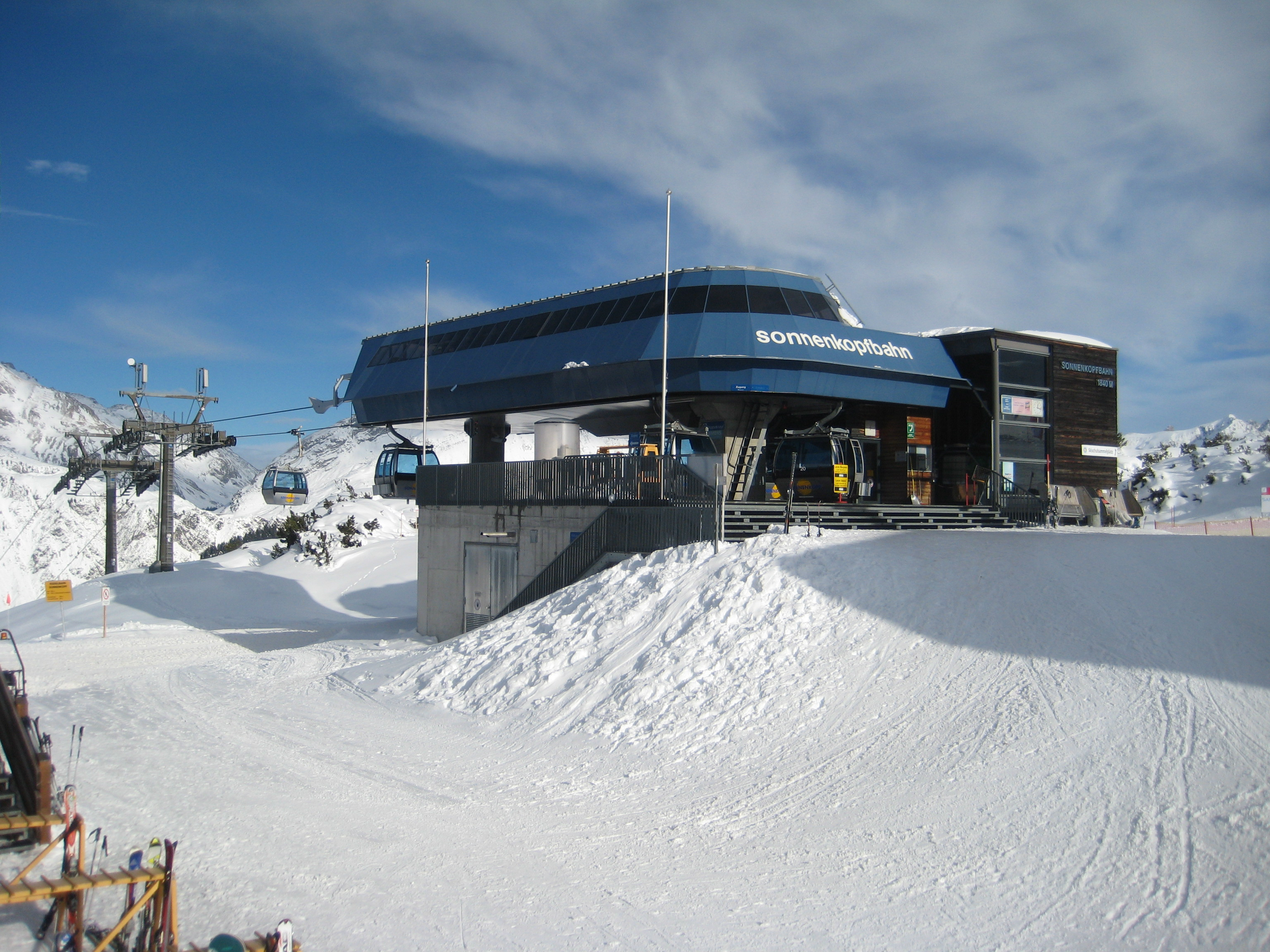 Station of a ski cable car at the Sonnenkopf